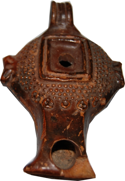 arcaic repert west sicily